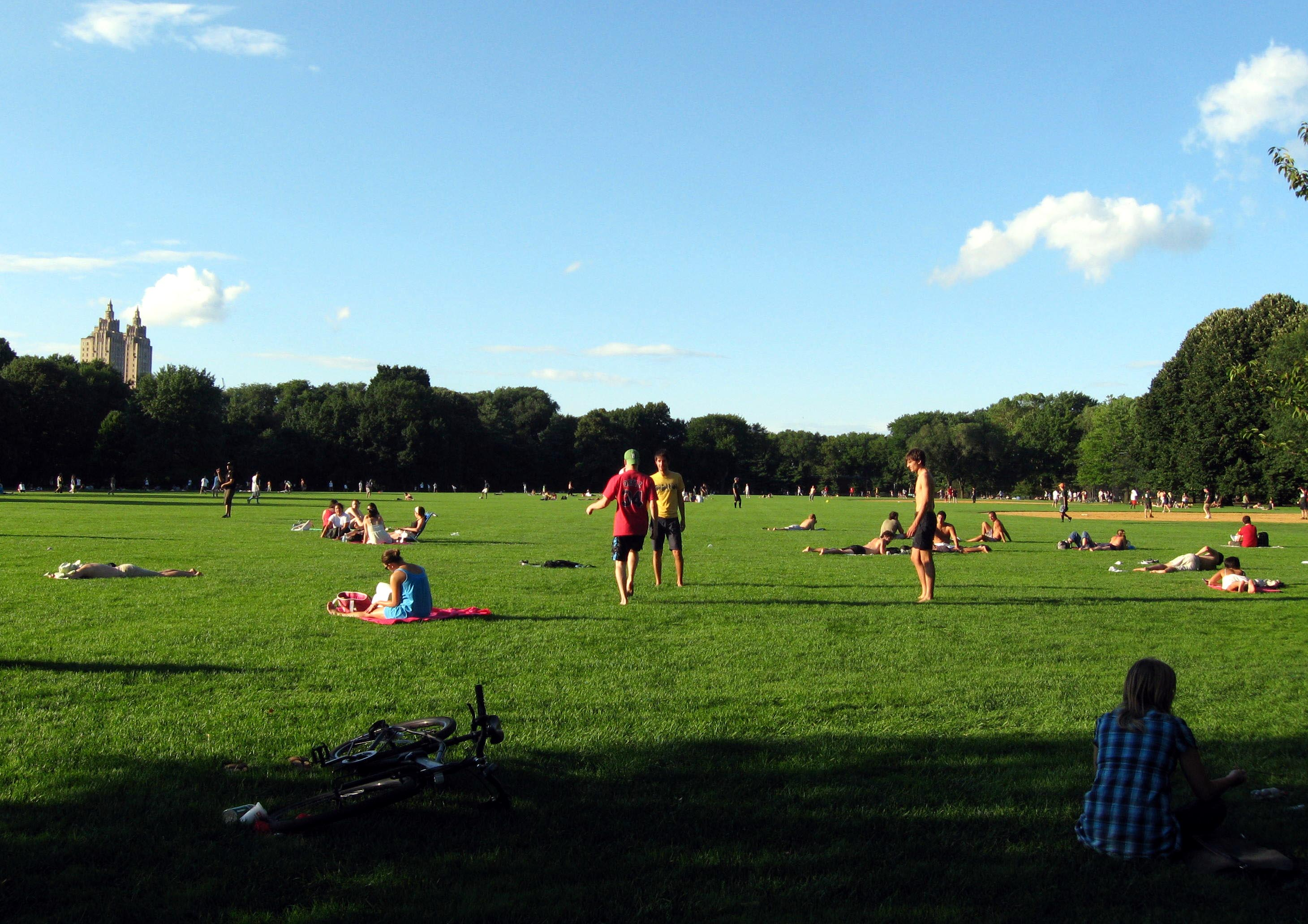 Looking north at Great Lawn on a sunny late afternoon. The Eldorado in background left.